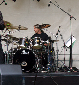 Sebastian Lanser of Panzerballett